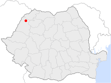 Location of Marghita in Romania.